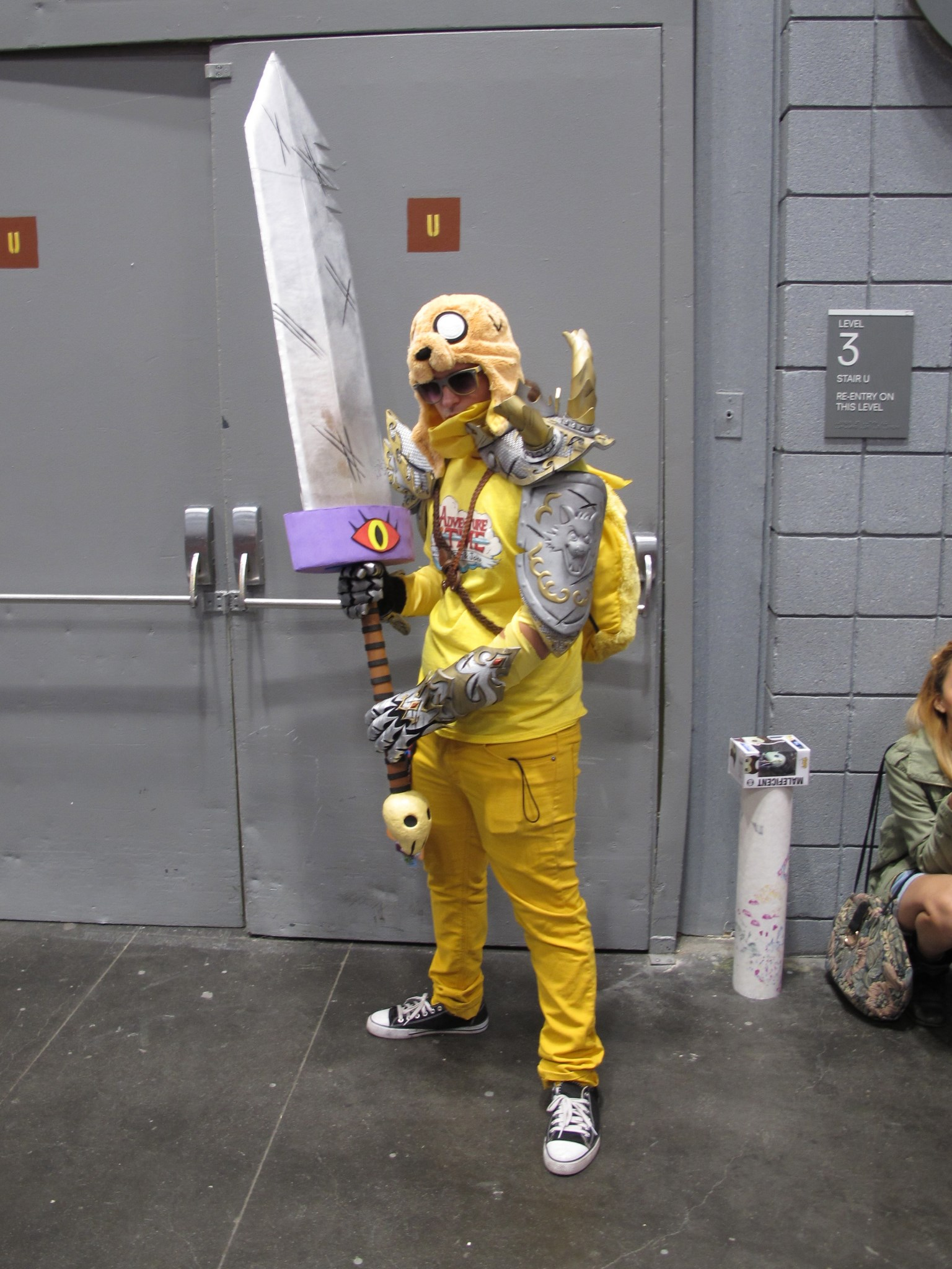 Jake ? Cosplay at the 2014 New York Comic Con.